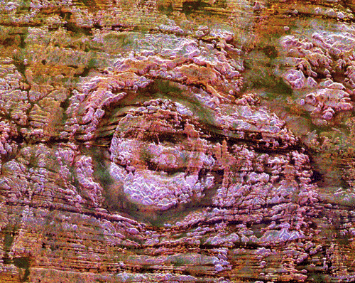 The impact of an asteroid or comet several hundred million years ago left scars in the landscape that are still visible in this spaceborne radar image of an area in the Sahara Desert of northern Chad. The concentric ring structure is the Aorounga impact crater, with a diameter of about 17 kilometers (10.5 miles). The original crater was buried by sediments, which were then partially eroded to reveal the current ring-like appearance. The dark streaks are deposits of windblown sand that migrate along valleys cut by thousands of years of wind erosion. The dark band in the upper right of the image is a portion of a proposed second crater. Scientists are using radar images to investigate the possibility that Aorounga is one of a string of impact craters formed by multiple impacts. Radar imaging is a valuable tool for the study of desert regions because the radar waves can penetrate thin layers of dry sand to reveal details of geologic structure that are invisible to other sensors. The image was acquired by the Spaceborne Imaging Radar-C/X-band Synthetic Aperture Radar (SIR-C/X-SAR) on April 18 and 19, 1994, onboard the space shuttle Endeavour. The area shown is 22 kilometers by 28 kilometers (14 miles by 17 miles) and is centered at 19.1 degrees north latitude, 19.3 degrees east longitude. North is toward the upper right. The colors are assigned to different radar frequencies and polarizations as follows: red is L-band, horizontally transmitted and received; green is C-band, horizontally transmitted and received; and blue is C-band, horizontally transmitted, vertically received. SIR-C/X-SAR, a joint mission of the German, Italian and United States space agencies, is part of NASA's Mission to Planet Earth program. Image du cratère d'Aorounga (Radar à synthèse d'ouverture)